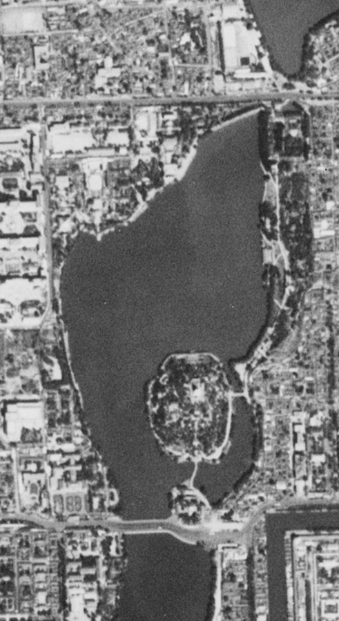 Beihai Park. Spatial tentatively corrected. 中文（中国大陆）: 北海公园。空间上尝试性矫正过。